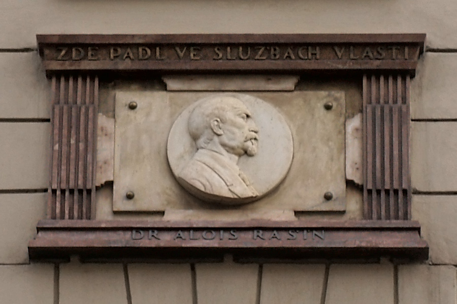 Sculpted plaque for memory of Czechoslovak politician Alois Rašín on the house in Prague where he lived and was shot in front of it by an anarchist in 1923